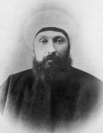 Djemaleddin Effendi Turkey circa 1910